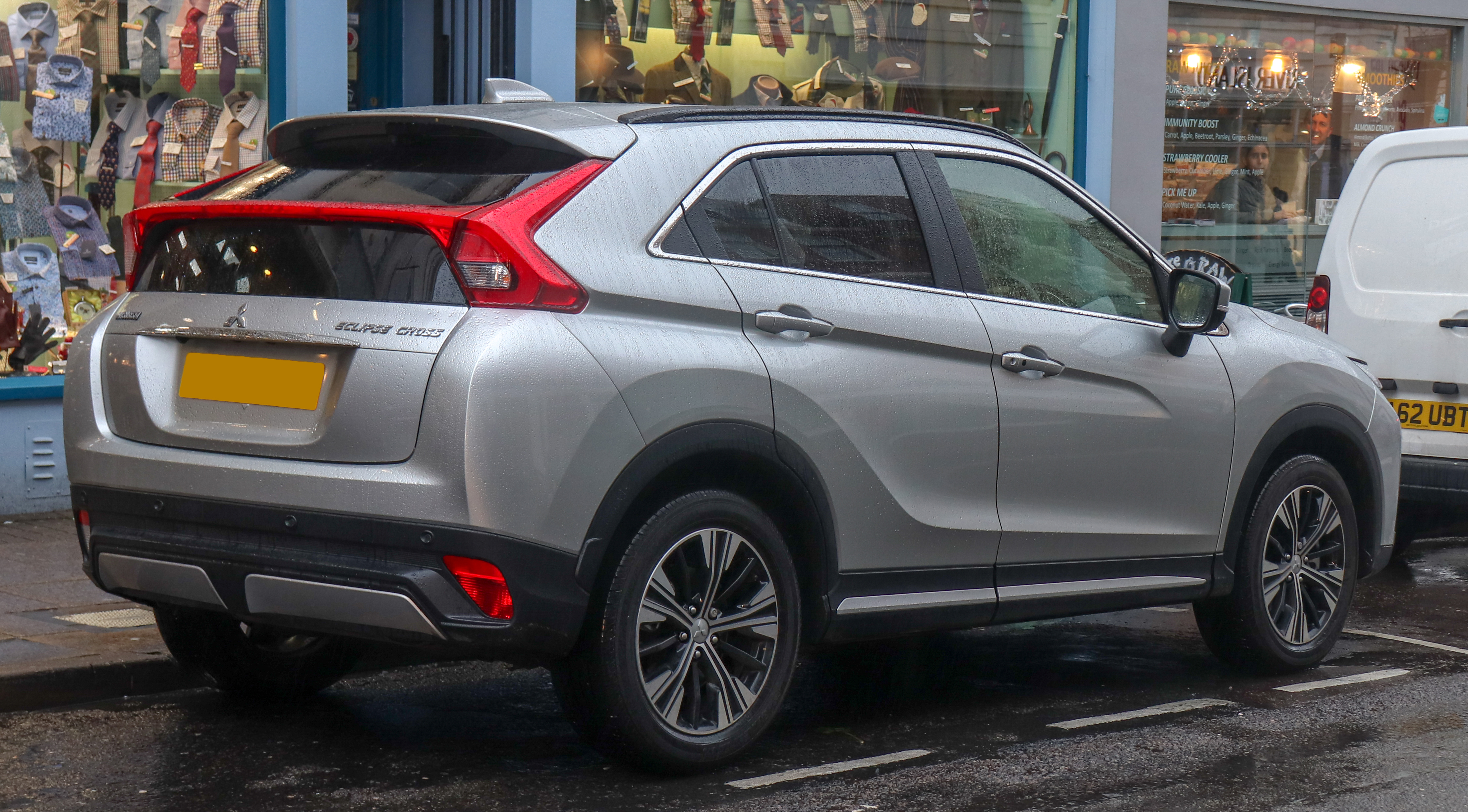 2018 Mitsubishi Eclipse Cross 3 4X2 1.5 Rear Taken in Leamington Spa